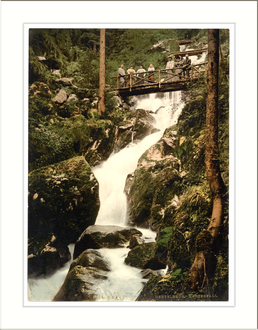 between ca. 1890 and ca. 1900. Title from print. Print no. 8214. Views of Germany 1 photomechanical print : photochrom color. Library of Congress Prints and Photographs Division Washington D.C. 20540 USA Wasserfall Gertelbach Baden Germany between ca. 1890 and ca. 1900. Title from print. Print no. 8214. Views of Germany 1 photomechanical print : photochrom color. Library of Congress Prints and Photographs Division Washington D.C. 20540 USA